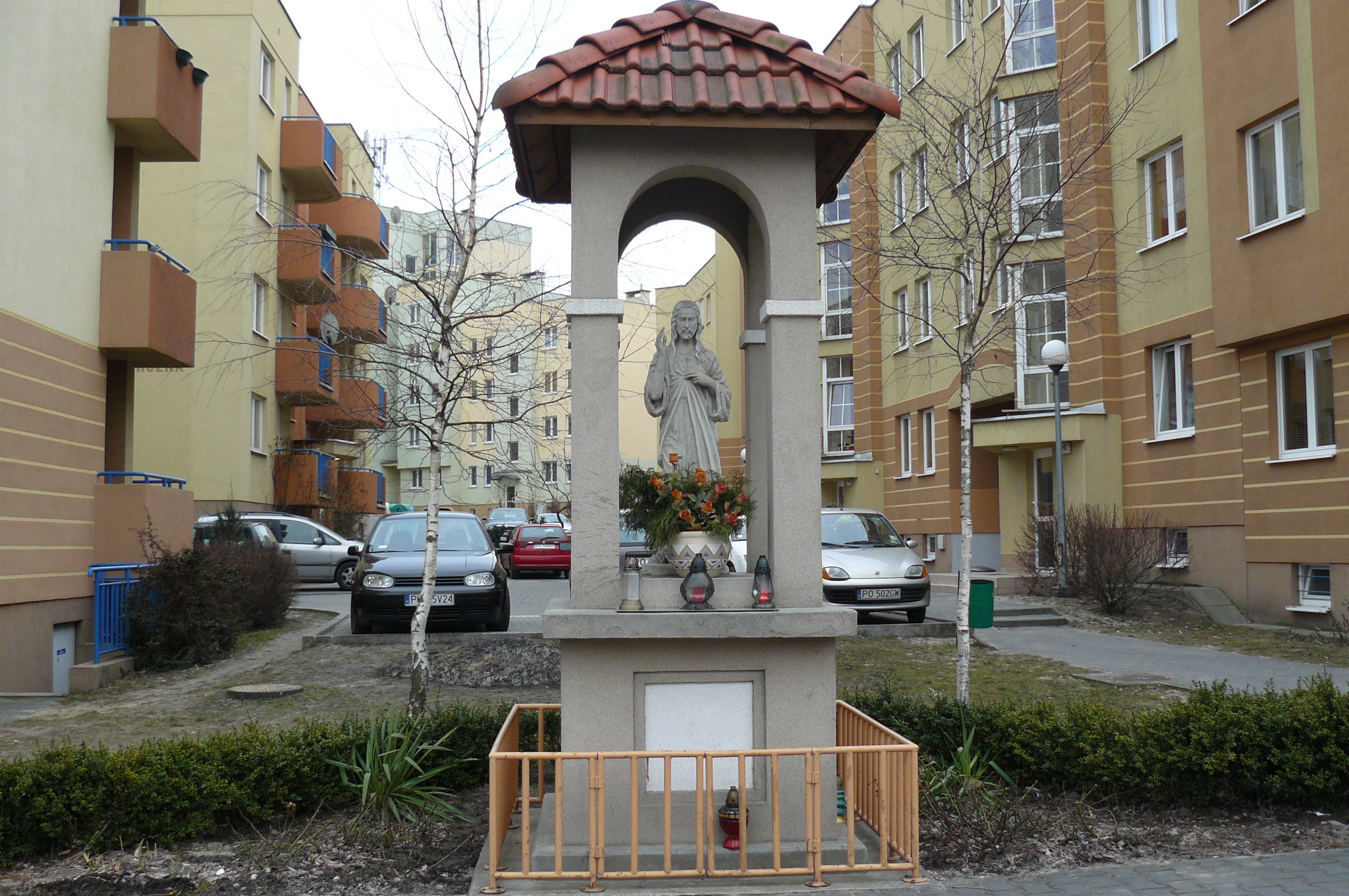 Folwarczna Street - Poznan.